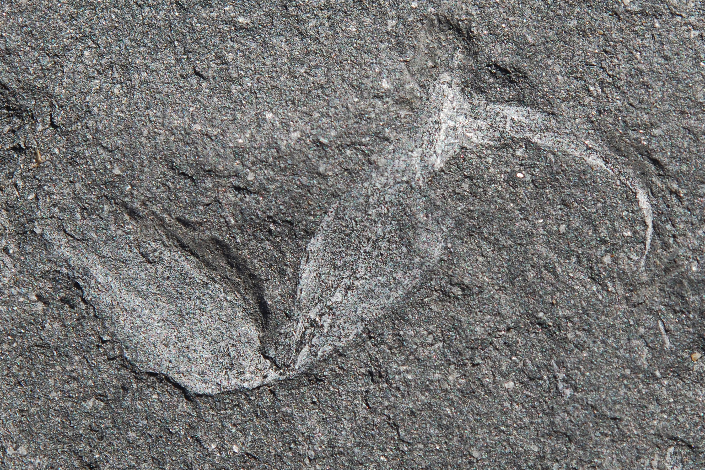 Gondwanascorpio emzantsiensis sting